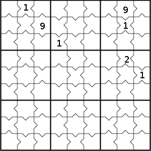 First step of solving sudoku.